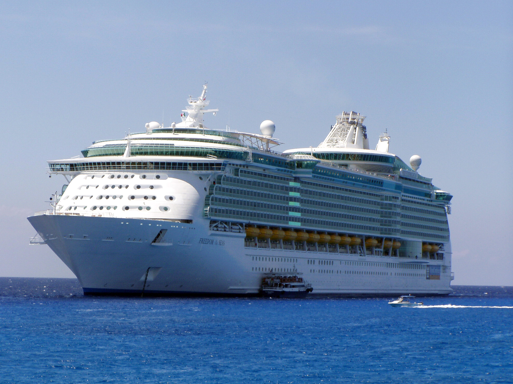 Royal Caribbean's Freedom of the Seas luxury cruise ship.